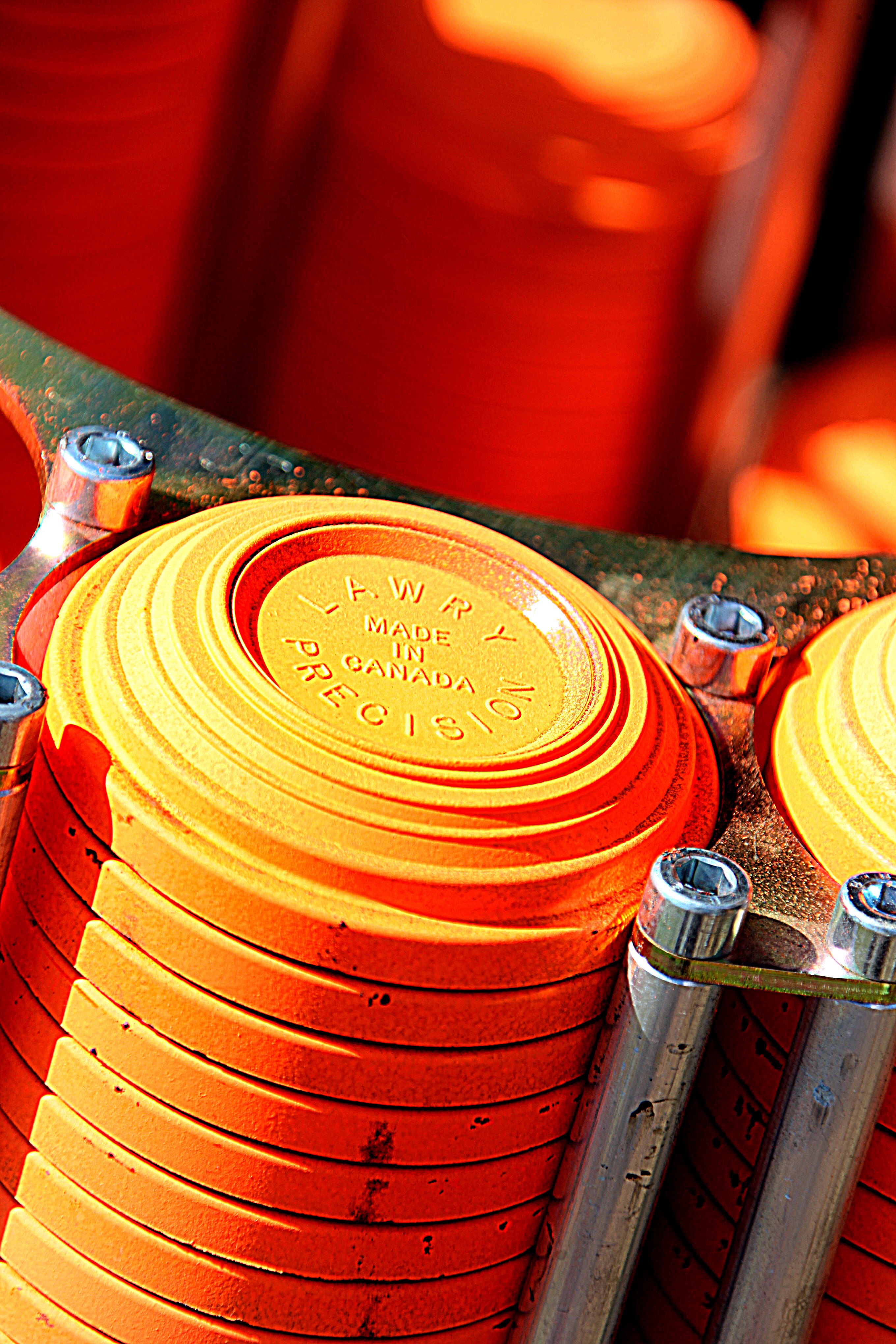 Stacks of clay pigeons await their fate at the Marine Corps Air Station Cherry Point Skeet Club Spring Family Fun Shoot at the air station shotgun range April 14